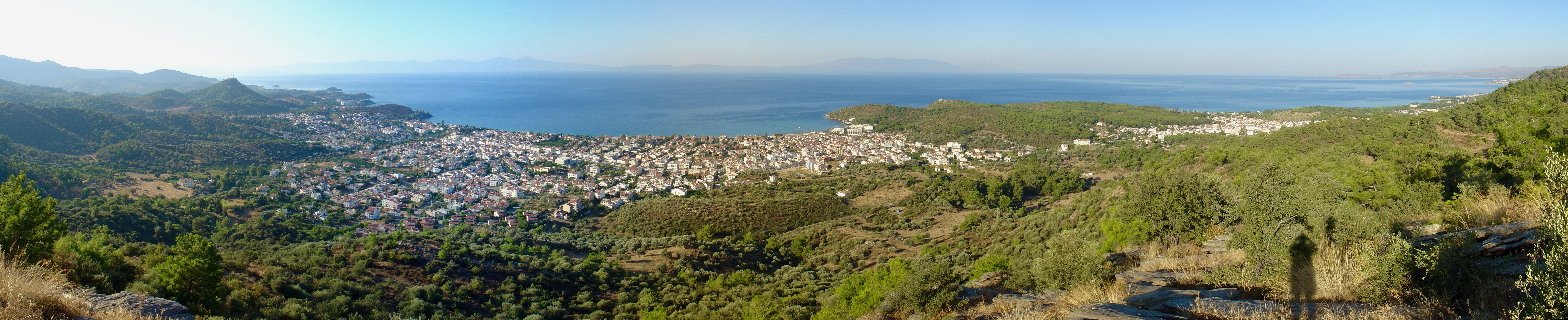 A panorama of Özdere